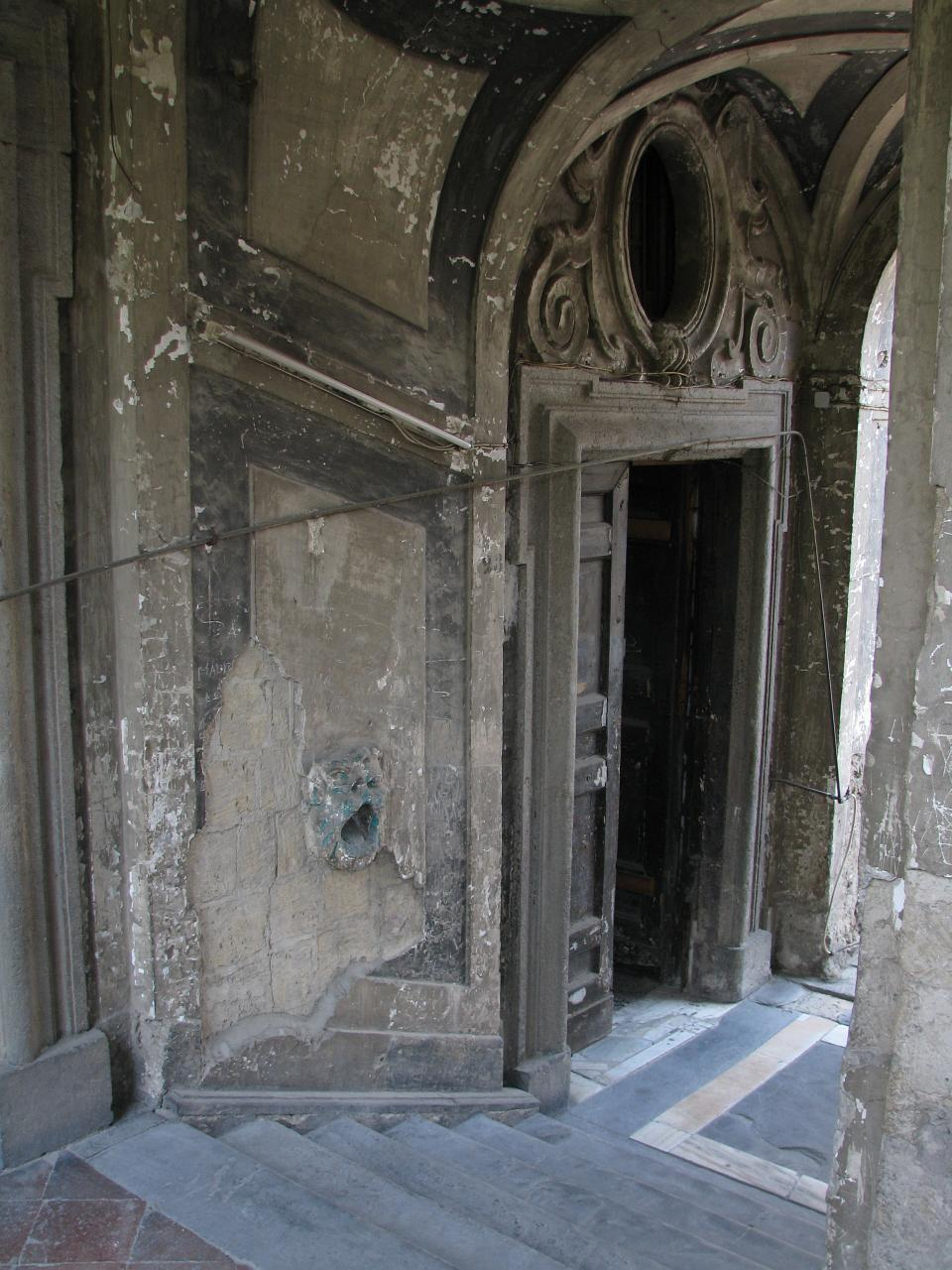 Palazzo Sanfelice, Naples (Napoli)